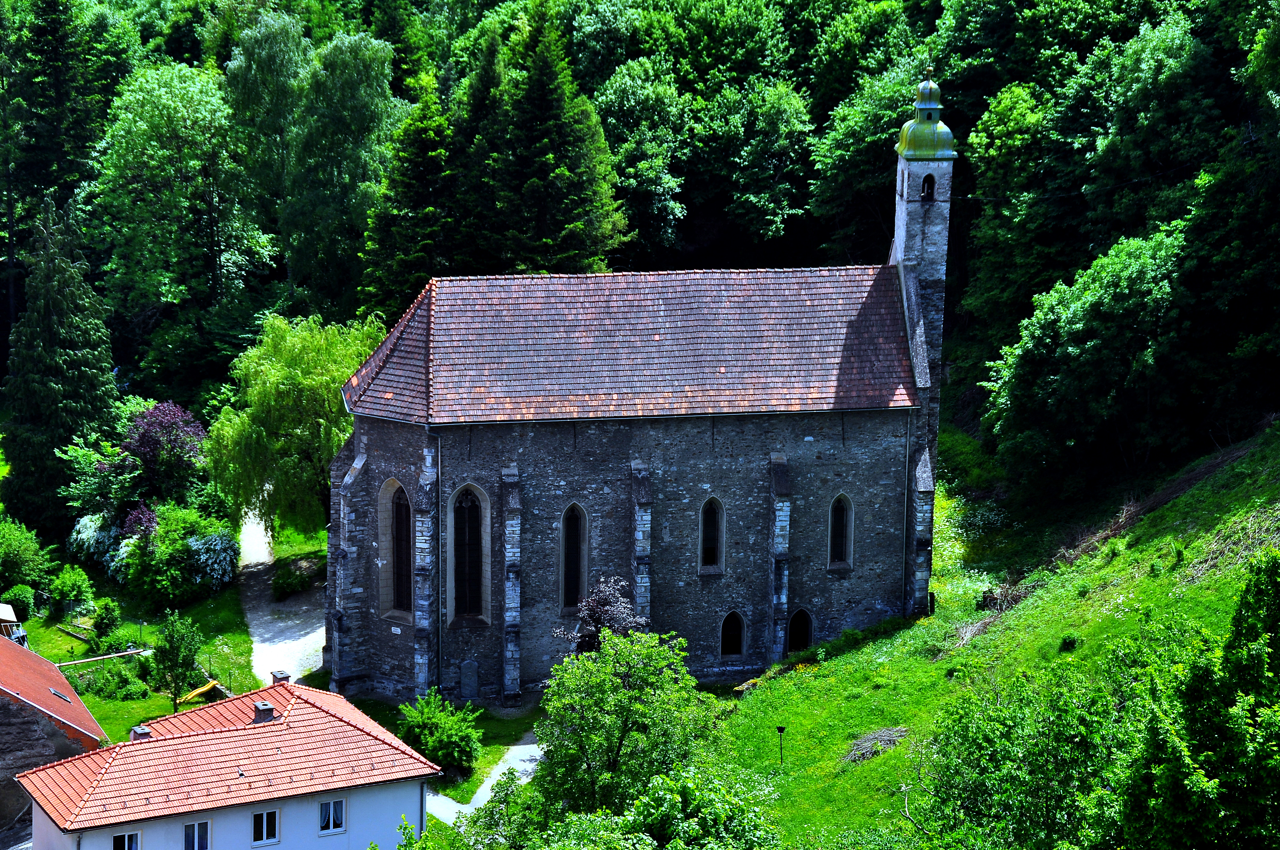 Heiligblutkirche (Church of the Holy Blood), medieval city Friesach, district Sankt Veit an der Glan, Carinthia / Austria / EU